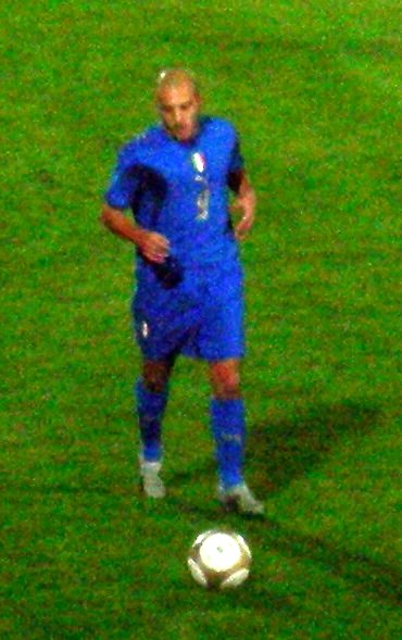 Alessandro Rosina, Italian footballer - Italy vs South Africa: Siena, Oct 17, 2007